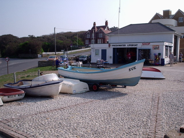 Freshwater Bay - Independent Lifeboat Shop Picture taken from sea wall facing east towards the lifeboat shop. Freshwater Lifeboat is run by an independent lifeboat organisation based at Freshwater Bay on the Isle of Wight.